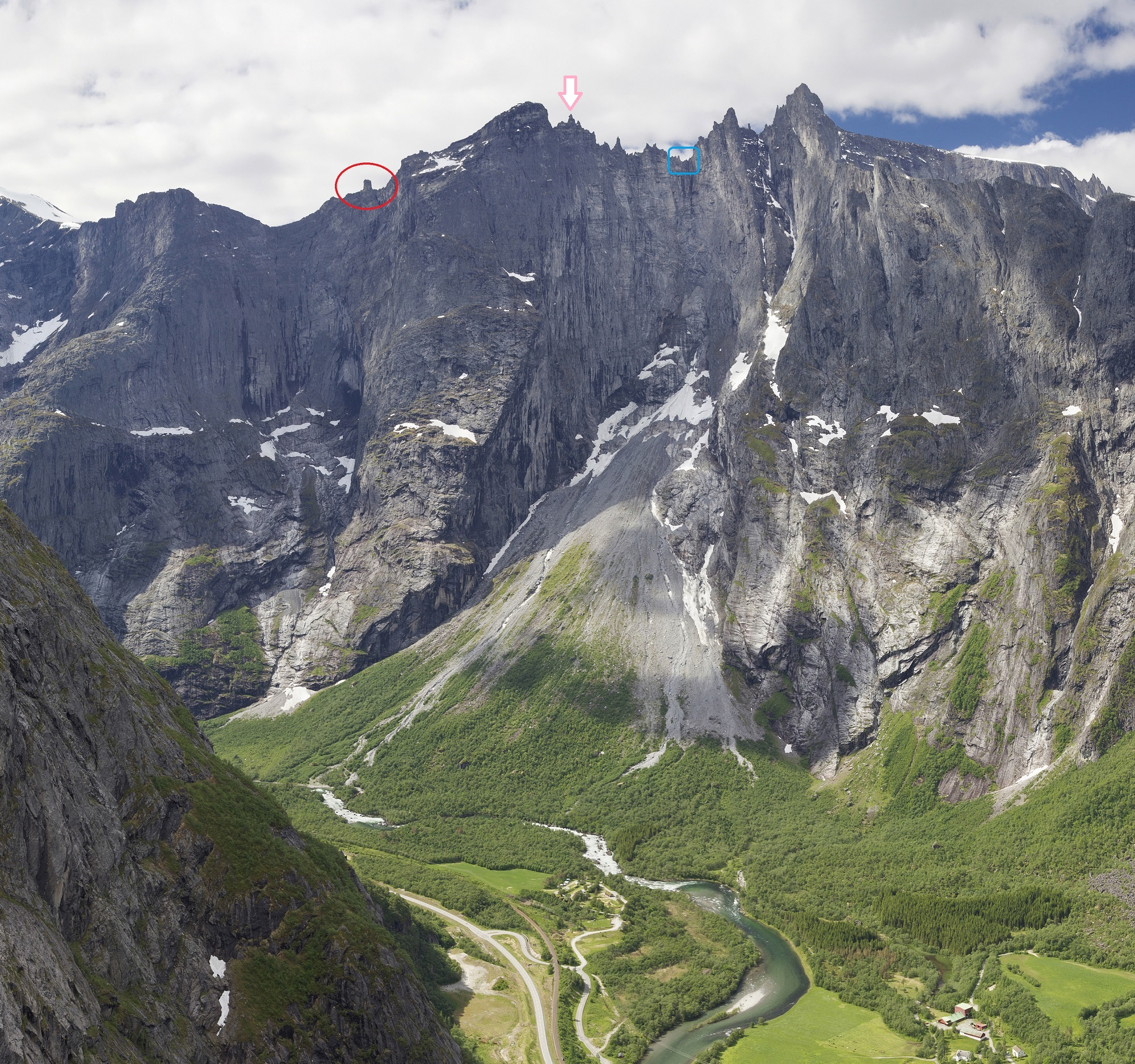 A view to Trolltindane mountain massif and Romsdalen valley from Litlefjellet in 2013 June. Stabben pinnacle in a red circle, Bruraskaret in a blue square, Trollspiret indicated with an arrow. Markings added to original photo.